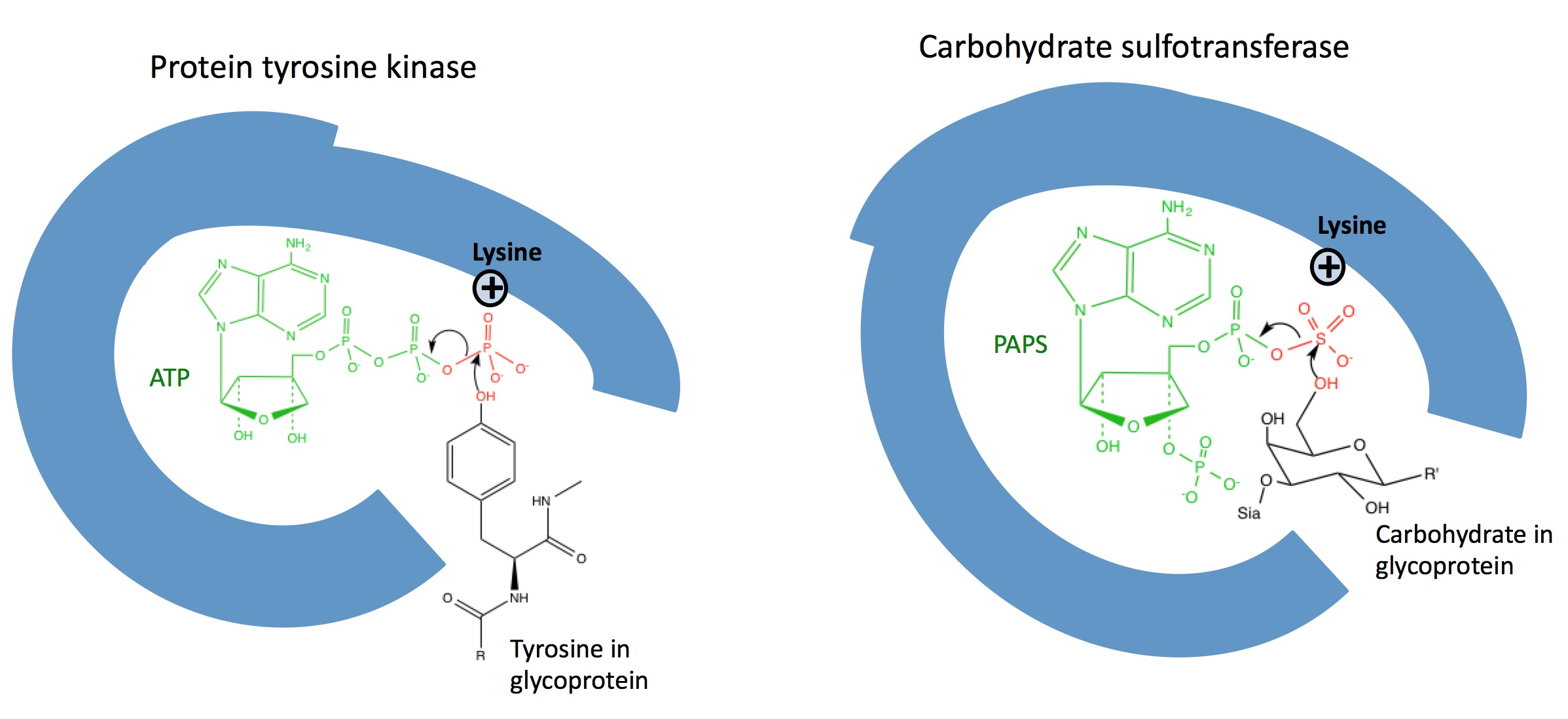 Carbohydrate sulfotransferases are analogous to kinases and use a simlilar in-line group transfer via a lysine residue (Hemmerich 2001)